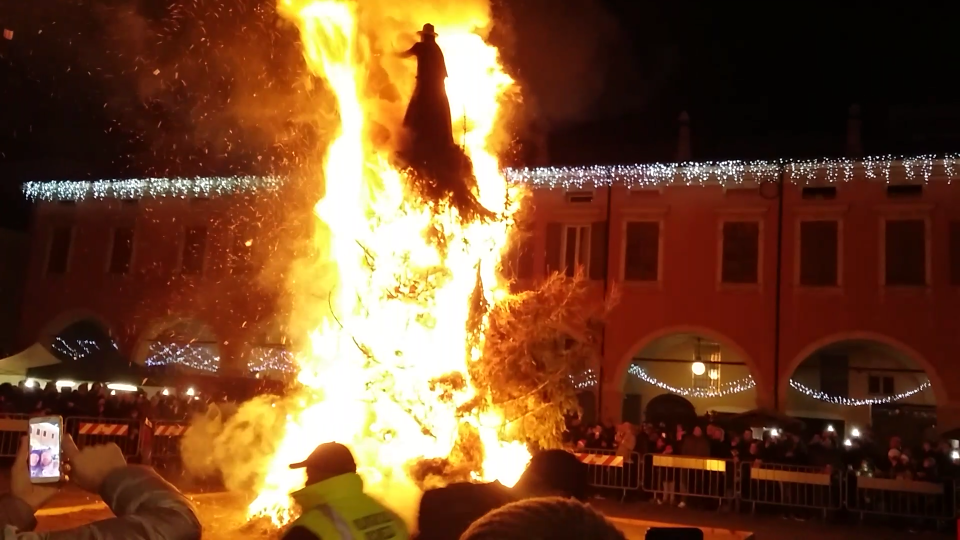 New Year's Day 2017, Sassuolo (MO)